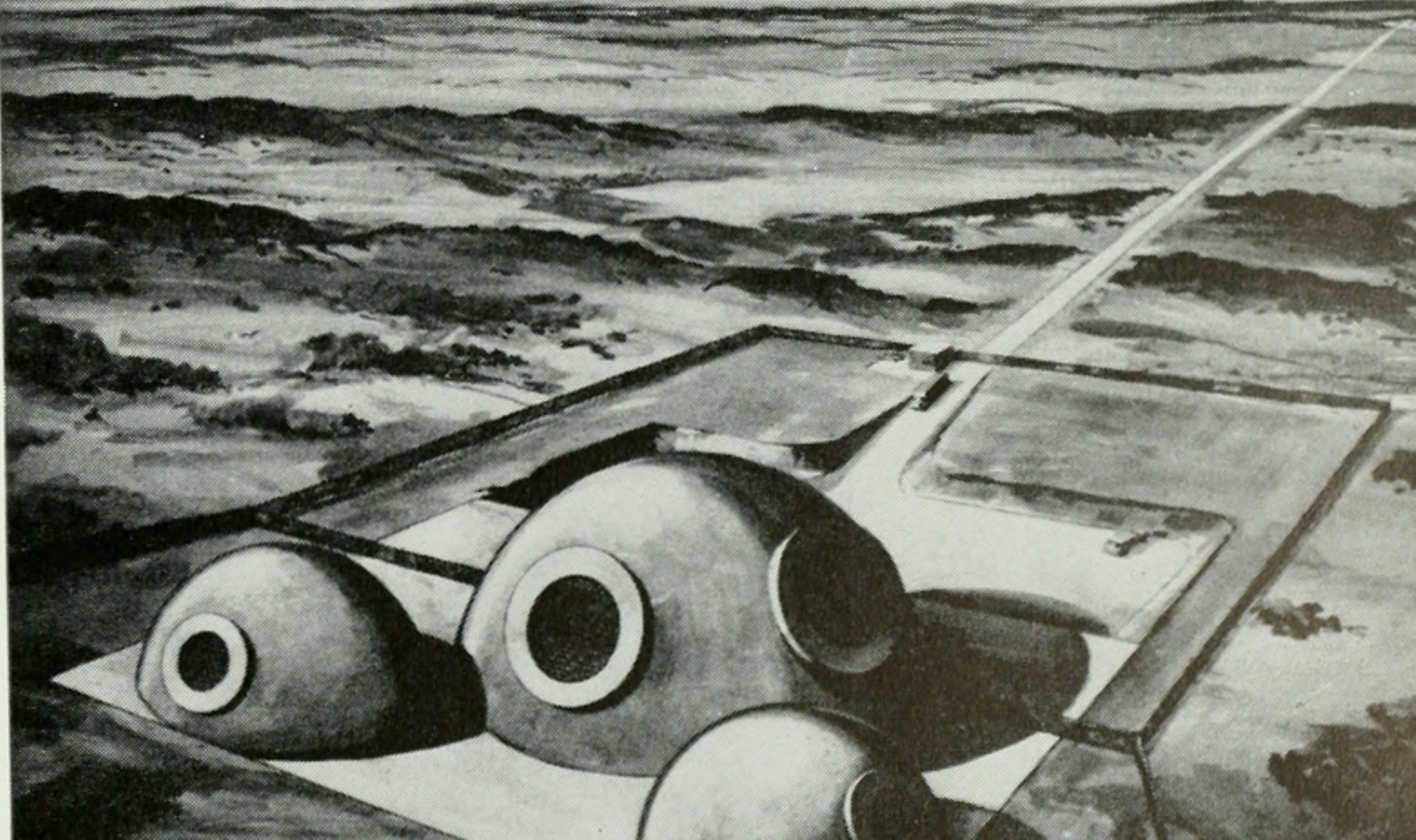 Bell Labs described the new Multi-function Array Radar in a 1962 edition of their internal journal. The image shows a system with two "faces", each providing coverage over about 150 degrees in azimuth. The smaller domes are the transmitters, while the receivers shared the central dome. The image appears to show construction on two additional faces underway, or ongoing construction on the underground building that hosted the enormous computer systems and power generators needed to run it. The original testbed system, sometimes known as MAR-I, was built in almost exactly this form at White Sands Missile Range in New Mexico. MAR-I was built for two faces, as in this image, but only one was installed. The only major differences between this image and MAR-I was built is that the transmitter domes are smaller, moved closer to the main receiver dome, and moved in relationship to the receiver. In this image if one stands in front of the receiver facing outward, the transmitter is on the right. MAR-I moved the transmitter to the left.